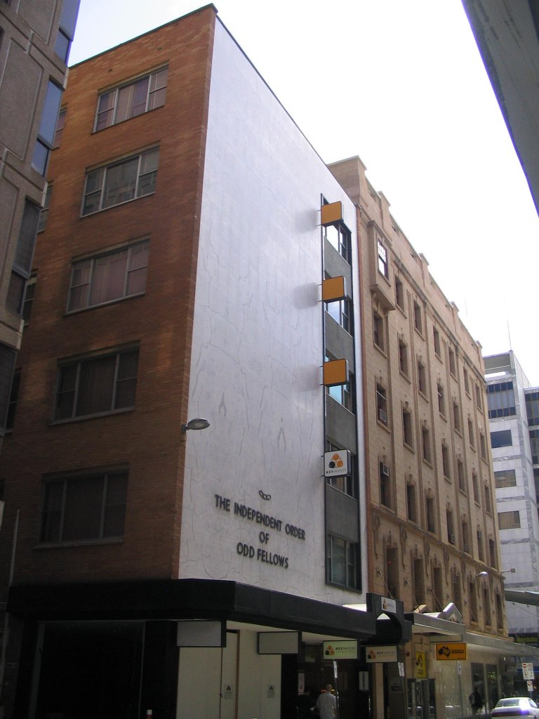 IOOF building, 47 Gawler Place, Adelaide, Winter 2008.